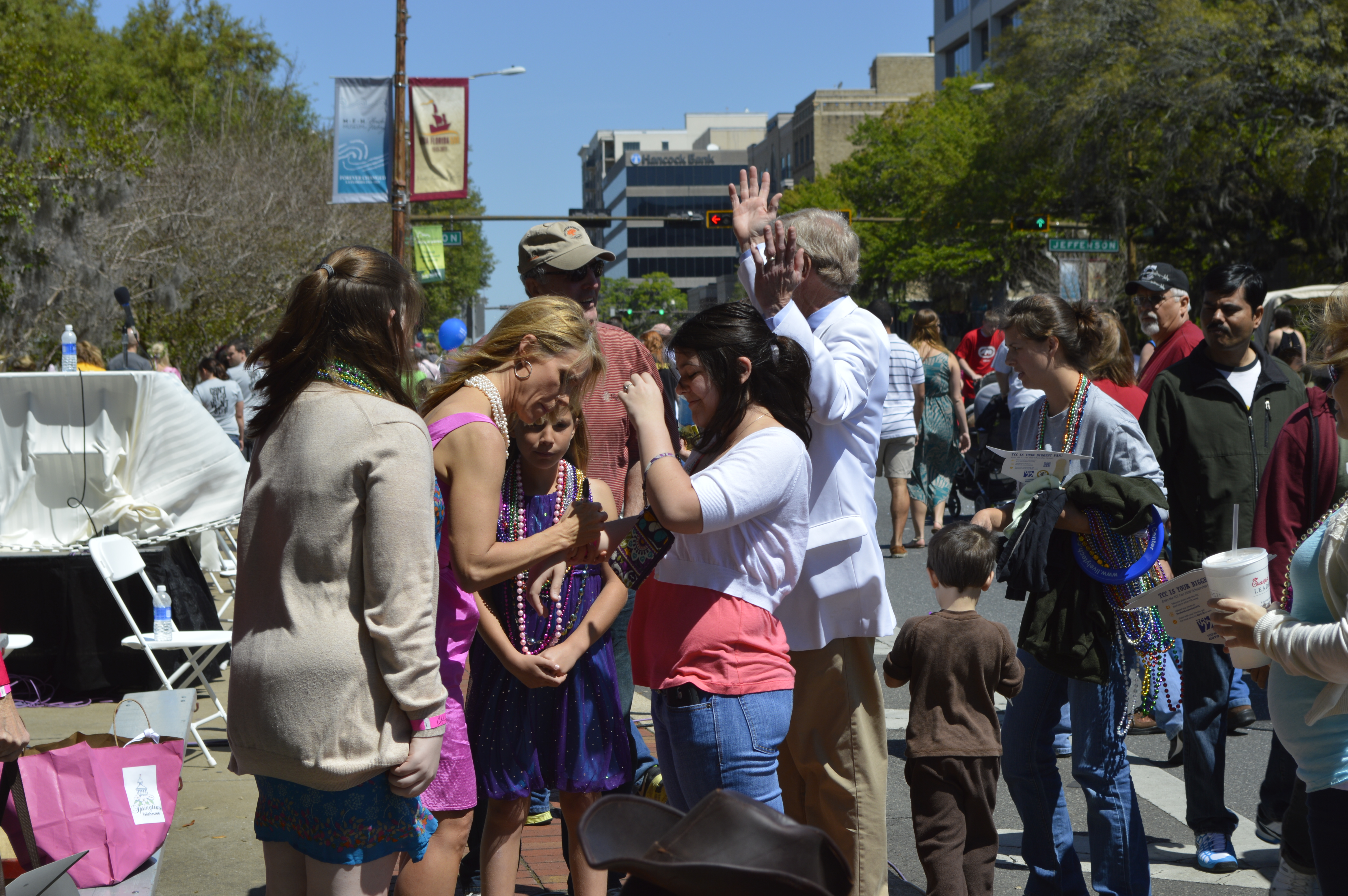 Cheryl Hines, Grand Marshall of the Springtime Tallahassee Parade signing autographs.